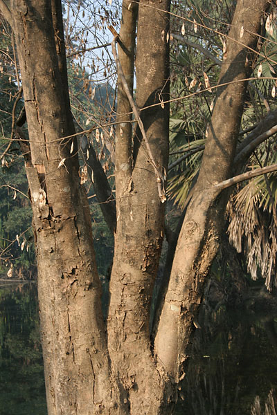 Takoli Dalbergia lanceolaria in Kolkata, West Bengal, India.